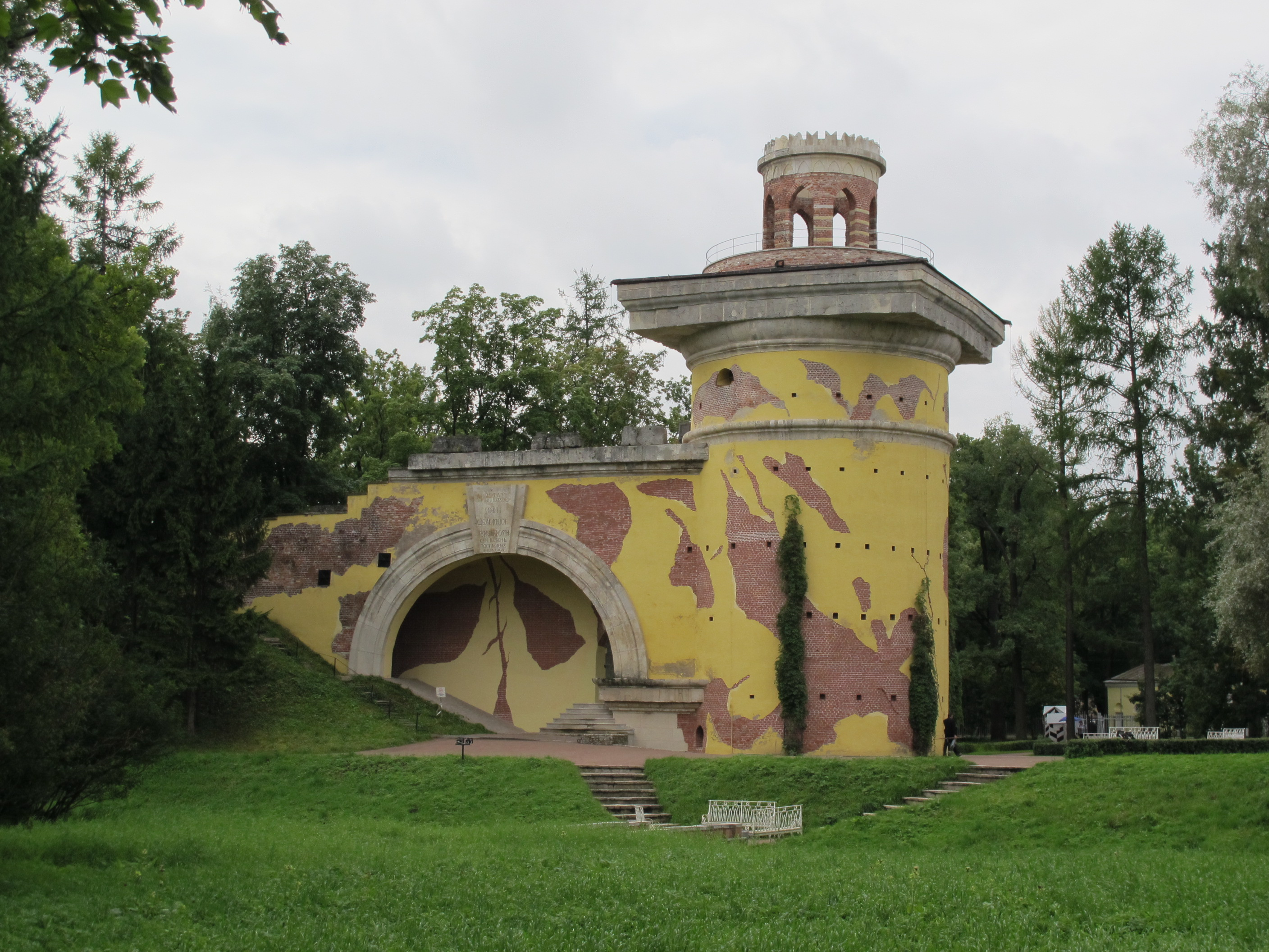 Ruine tower